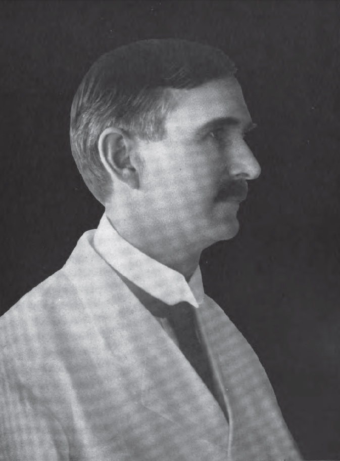 Kentucky Congressman Maurice H. Thatcher